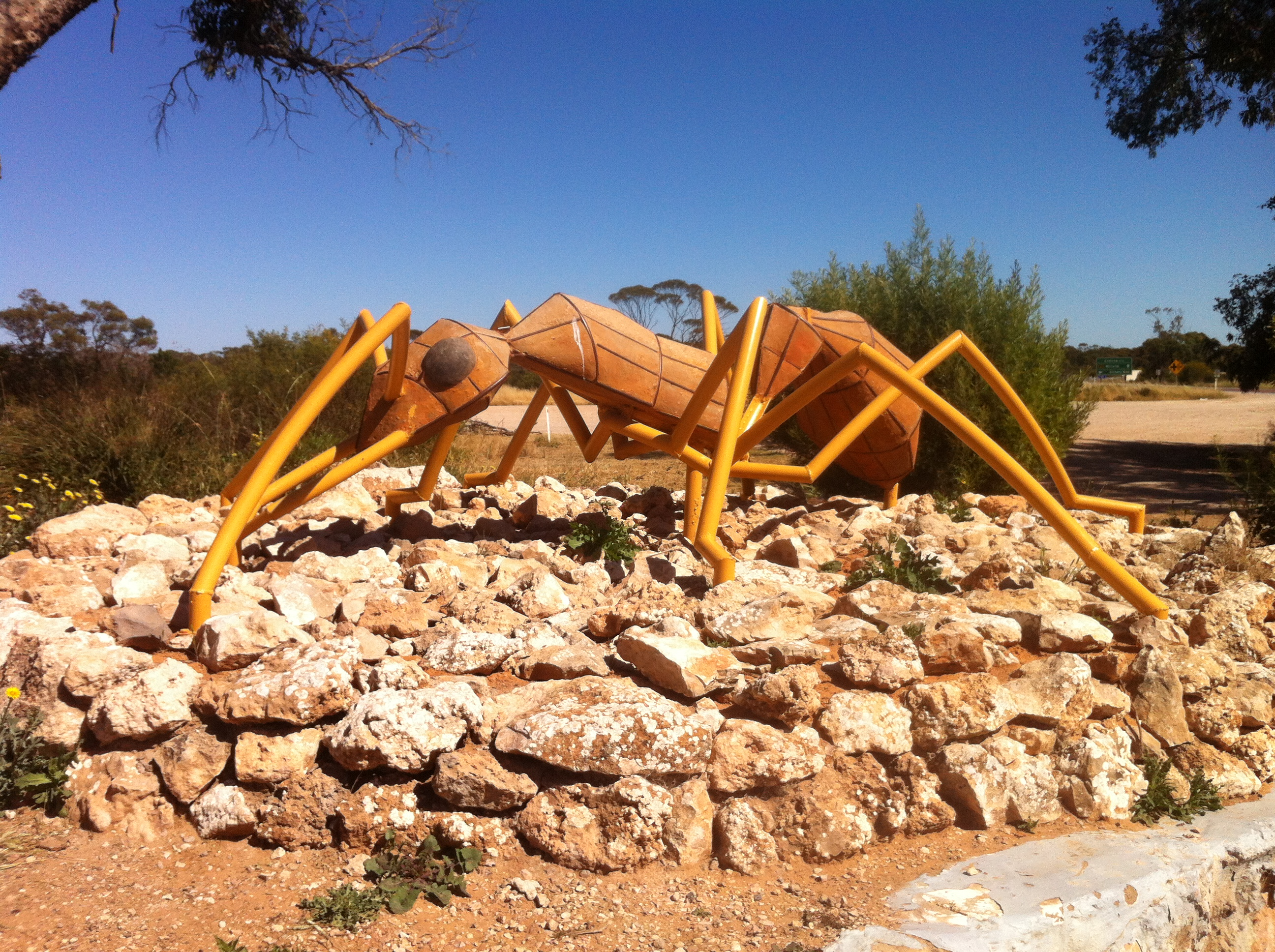 The Big Ant, Poochera, South Australia